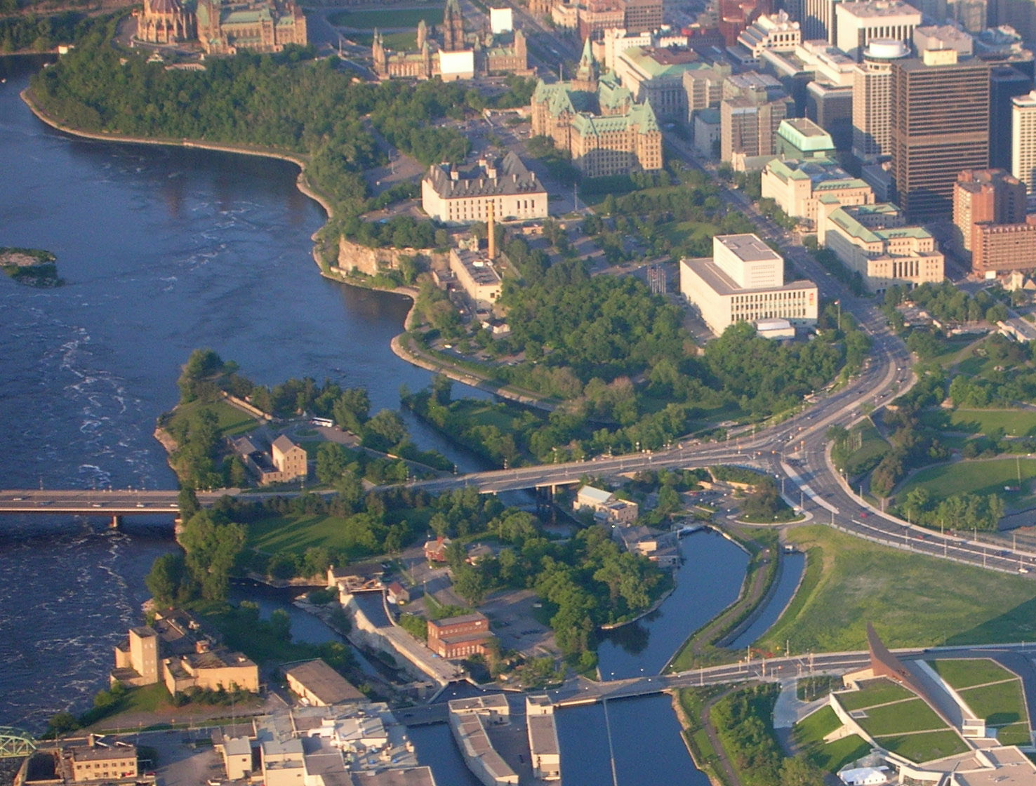 Victoria island (bottom) in the Ottawa River, connected by bridge to City of Ottawa near Parliament hill (top)